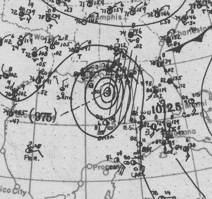 Surface weather analysis of a major hurricane in the Gulf of Mexico on July 5, 1916.